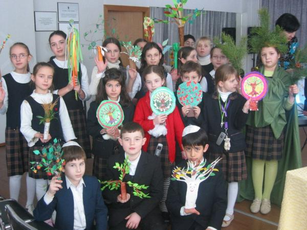 Tu Bishvat ceremony at the Jewish school in Vilnius, Lithuania.